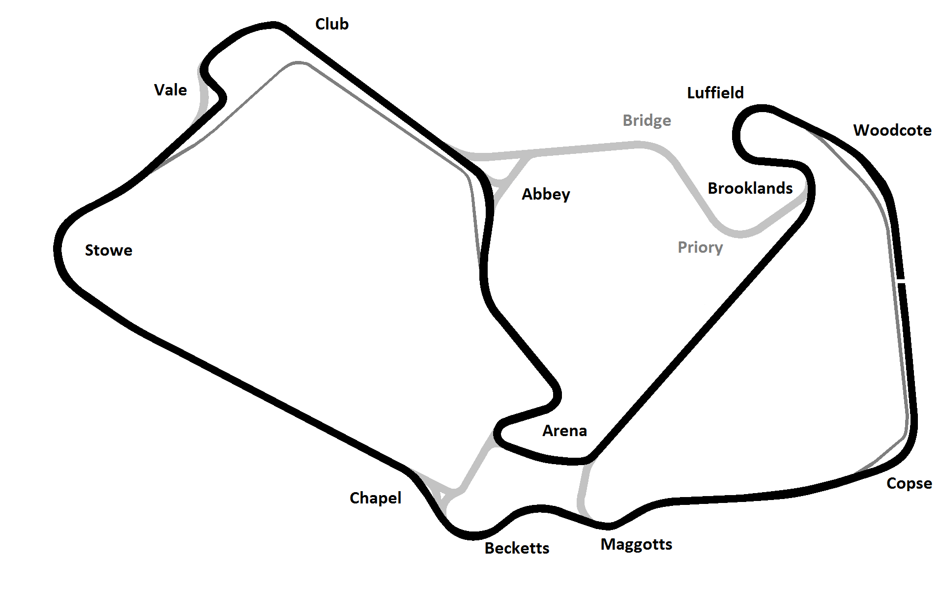 The new "Arena Grand Prix" version of Silverstone Circuit. This map may be incomplete, and may contain errors. Don't rely solely on it for navigation.